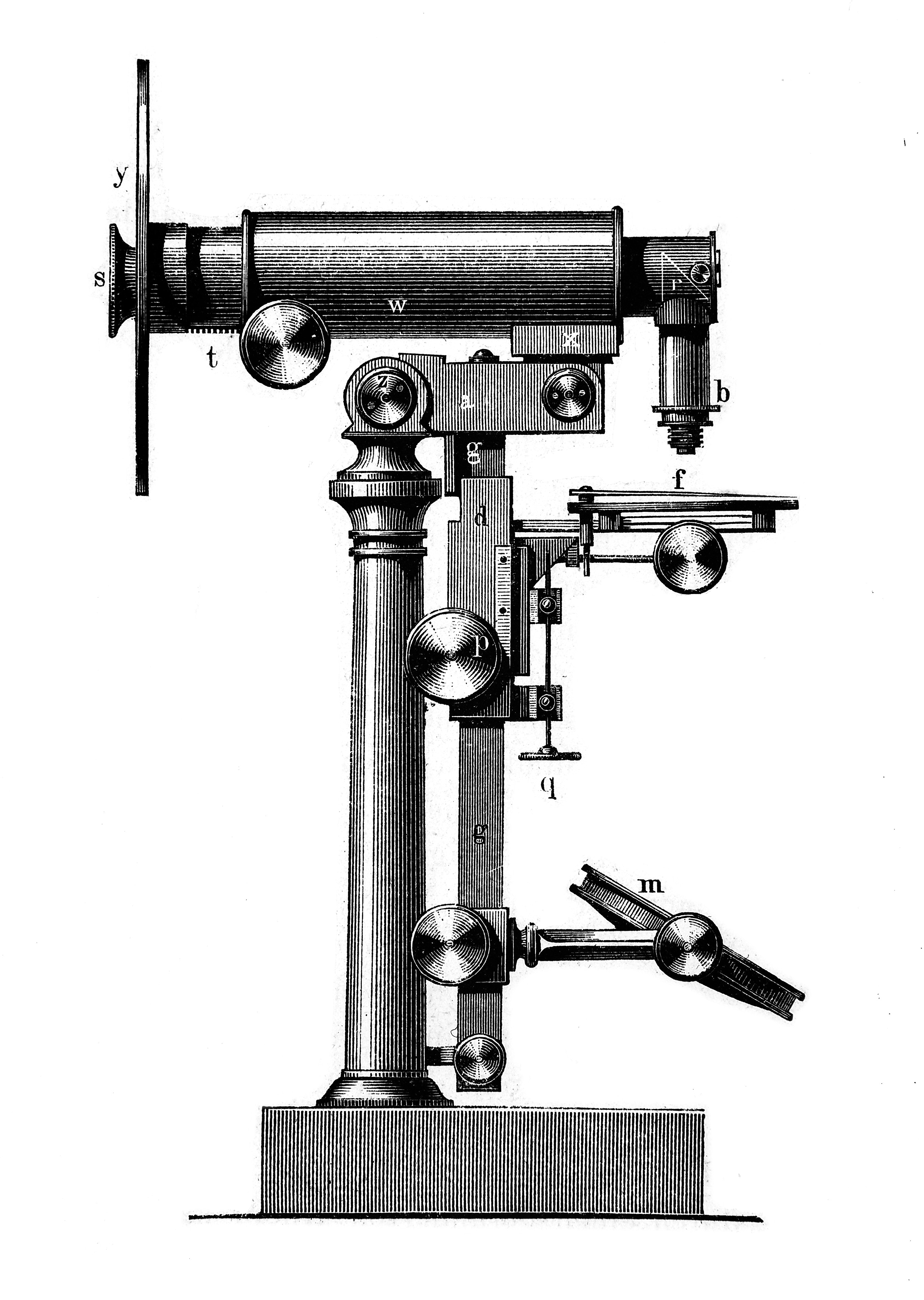 The horizontal micoscope of Chevalier (makers of microscopes and optical instruments). Described in Chevalier, C., Des microscopes et leur usages, Paris 1839. Type first made in 1834. General Collections Keywords: Microscopes